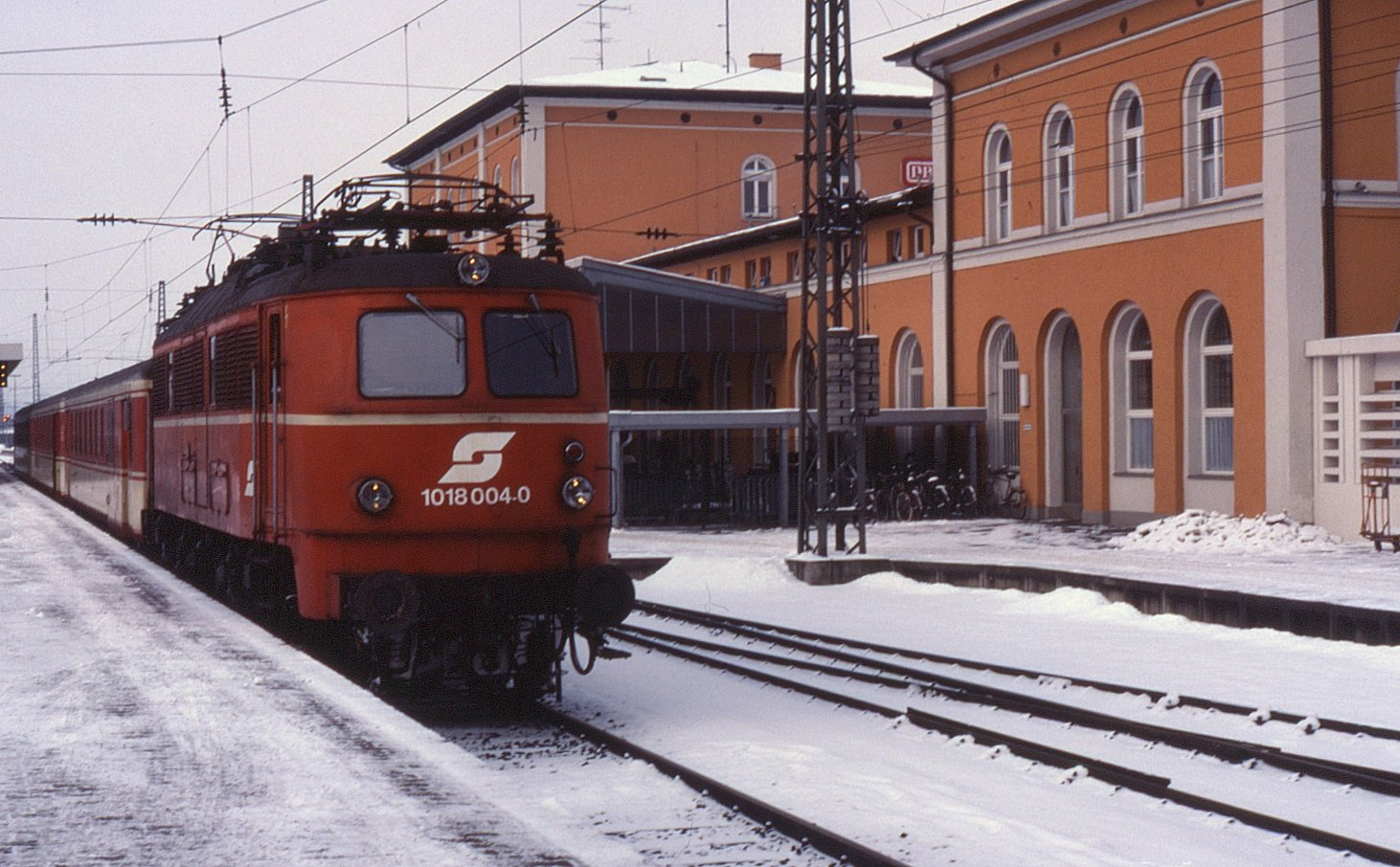 Dating back to 1940, these locos survived right up until the 1990s in Austria. Seen just over the border in Germany on 14 February 1991 1018.004 is seen on train 3351, 10:42 Passau Hbf to Linz Hbf.